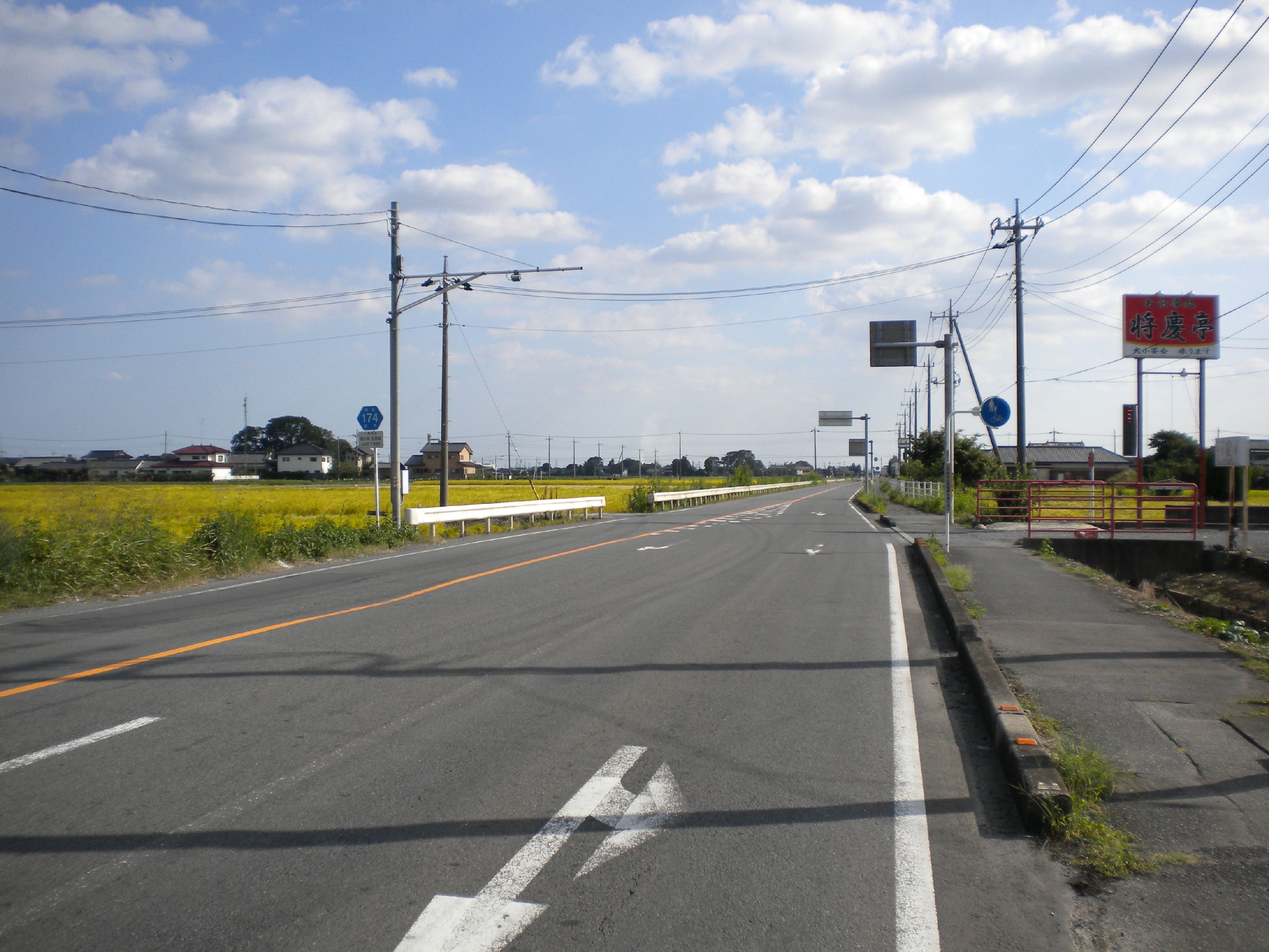 Tochigi prefectural road No.174 on Oyama city